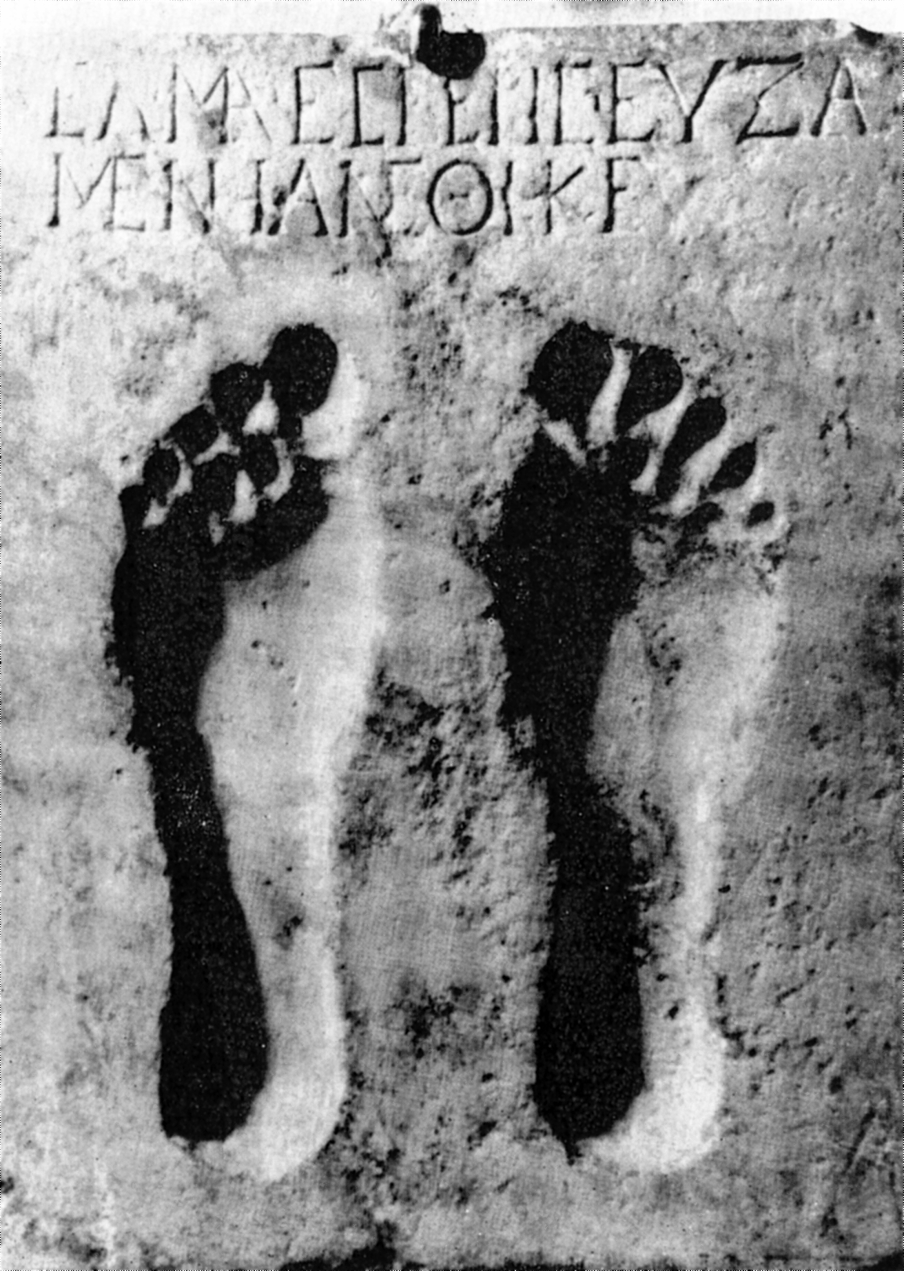 Photograph